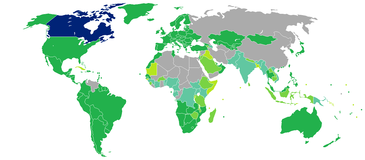 Visa requirements for Canadian citizens Canada Visa free access Visa on arrival eVisa Visa available both on arrival or online Visa required